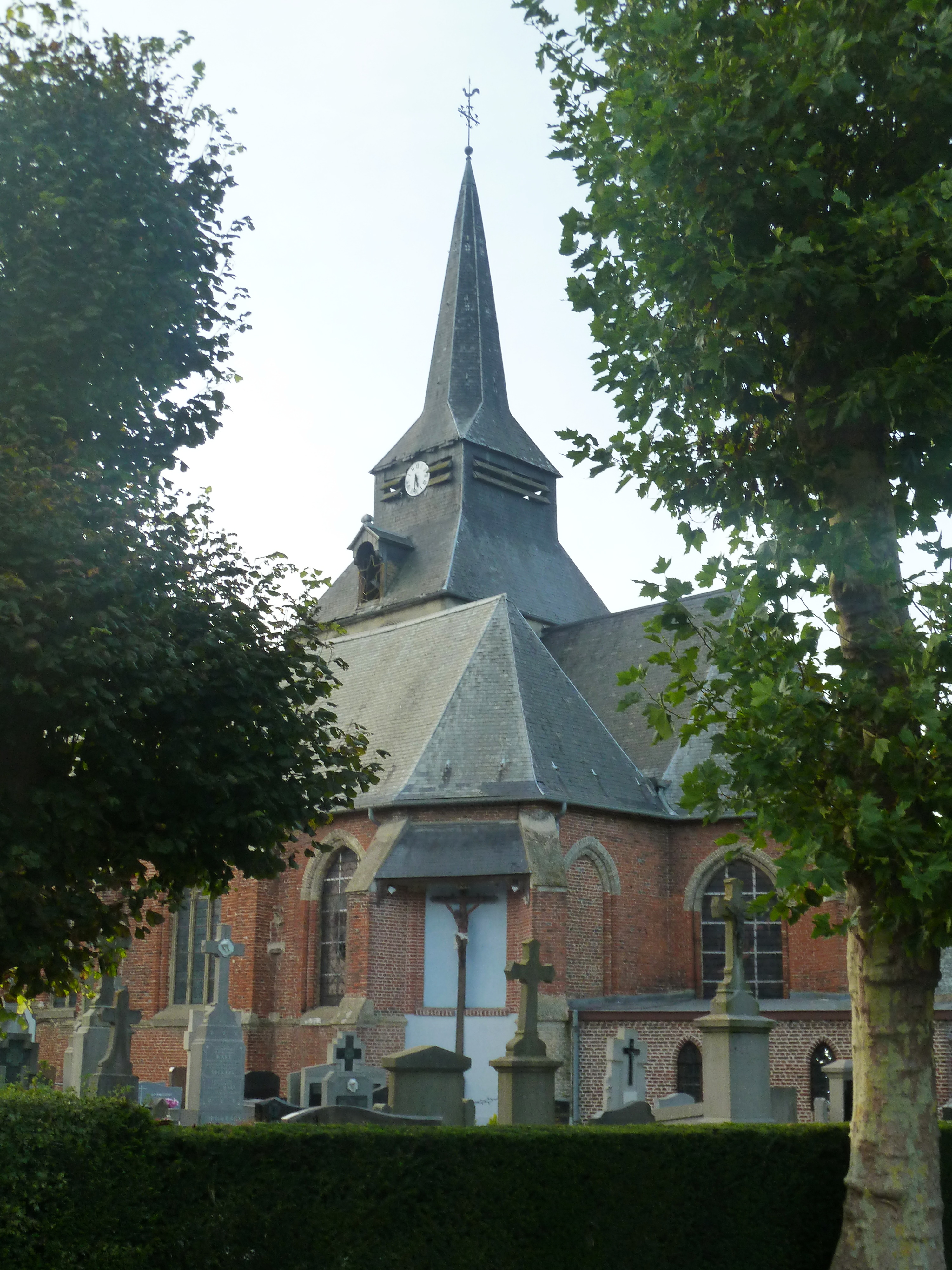 Chevet de l'église Saint-Vaast. Lynde Nord, France